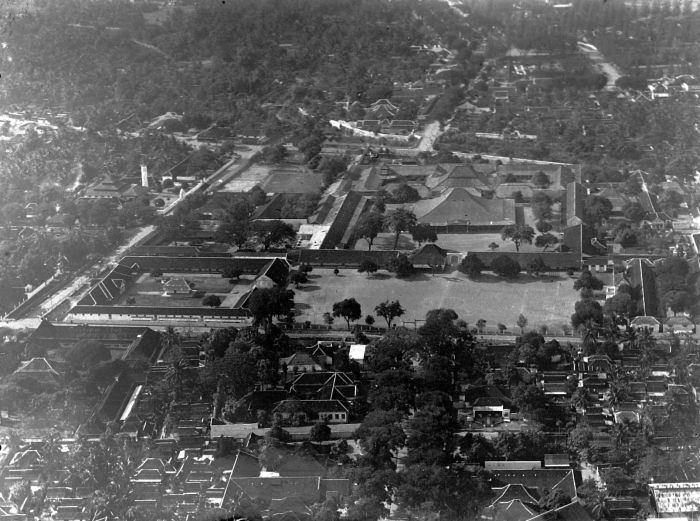 Air photo of the palace of Mangku Negoro VII at Solo